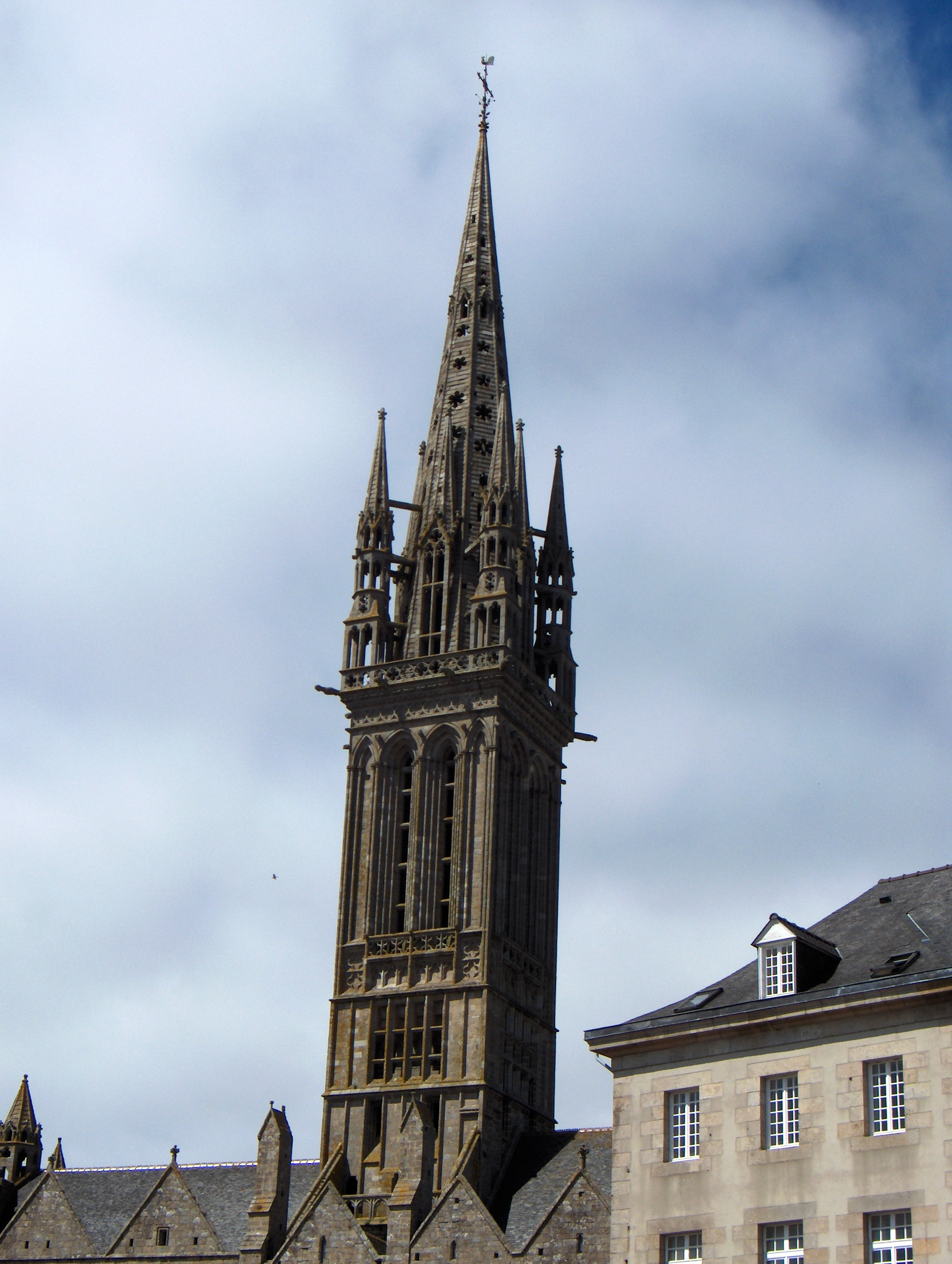 Chapel of Kreisker Saint-Pol-de-Léon, France.